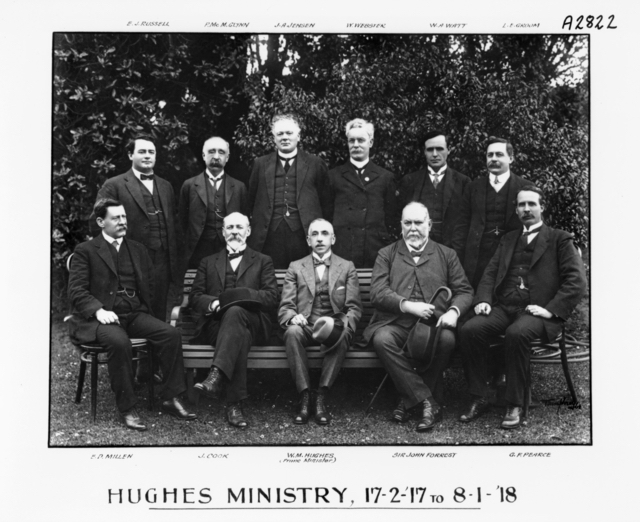 The Third Hughes Ministry in early 1917